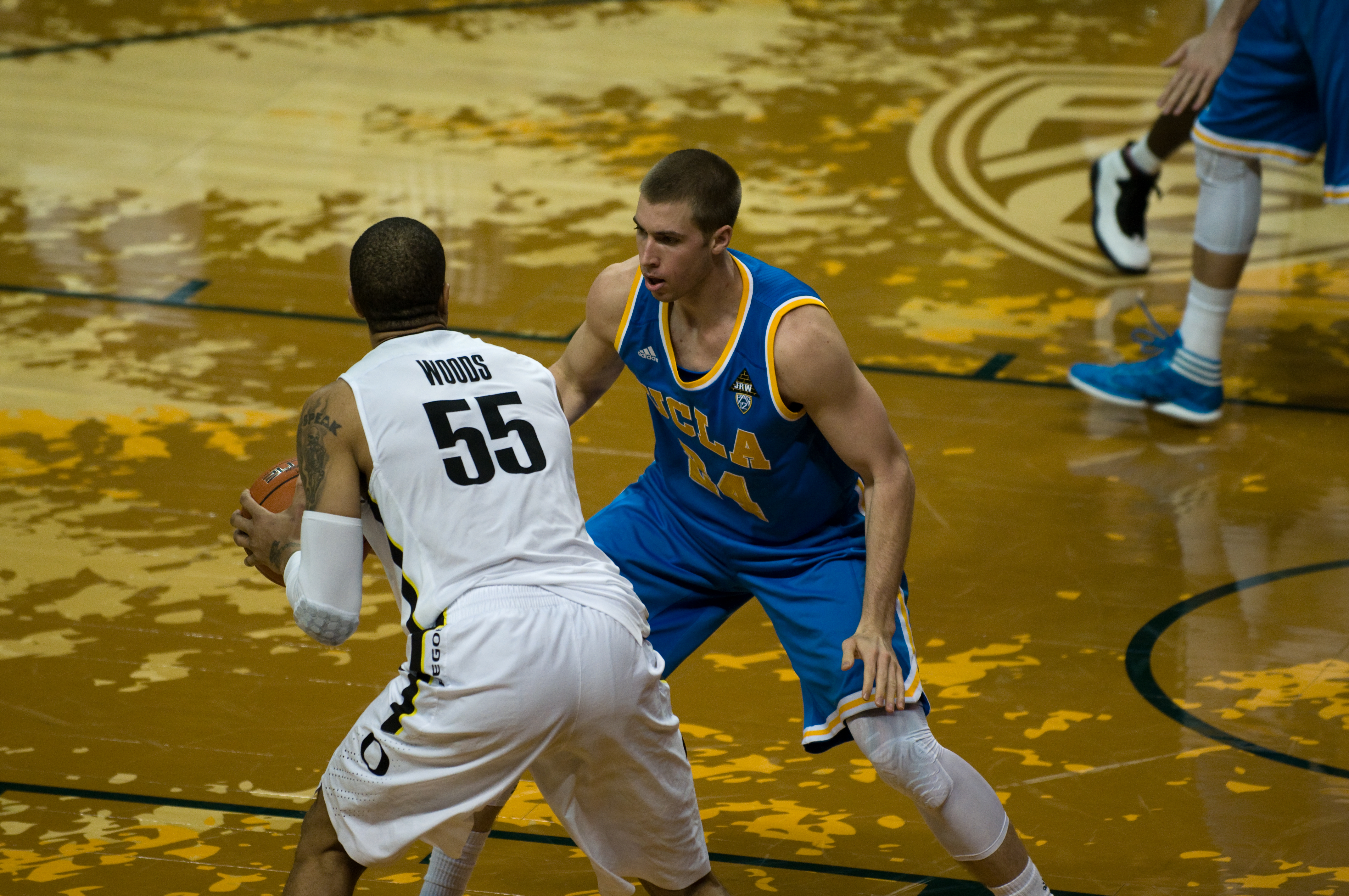 Travis Wear of UCLA playing against Oregon in 2012.